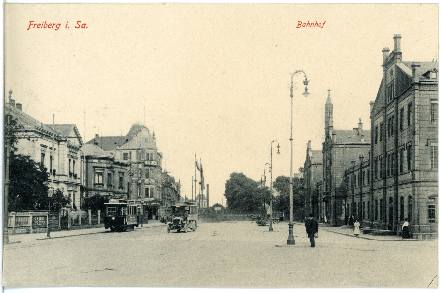 This postcard is from publisher Brück & Sohn in Meißen ( This postcard has a unique number 18009 and is available in a higher resolution at the publisher. This images was uploaded in a cooperation project between Wikipedians and the publisher.